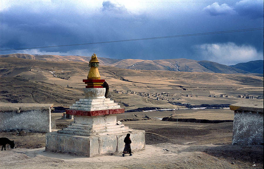 Buddhist stupa and houses outside the town of Aba, on the Tibetan Plateau. Located in Aba (Ngawa) Tibetan and Qiang Autonomous Prefecture, Sichuan Province, southwestern China.